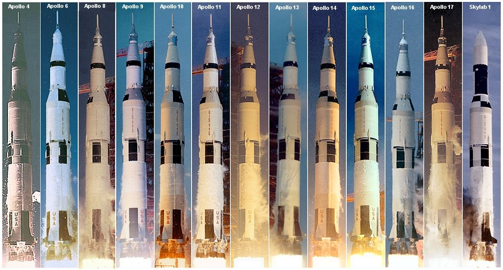 This is a picture of All Saturn V Launches - created by User:Reubenbarton using Paint Shop Pro. The individual launch images came from the NASA Image eXchange (NIX) web site: downloaded from en.wikipedia, original uploader was User:Reubenbarton